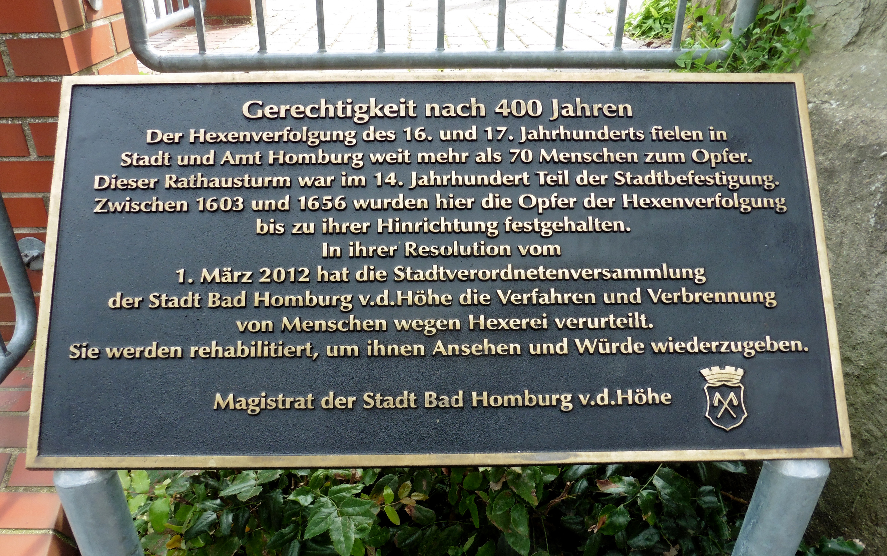 Memorial for the more than 70 victims of the witch trials in Bad Homburg, established in July 2017.